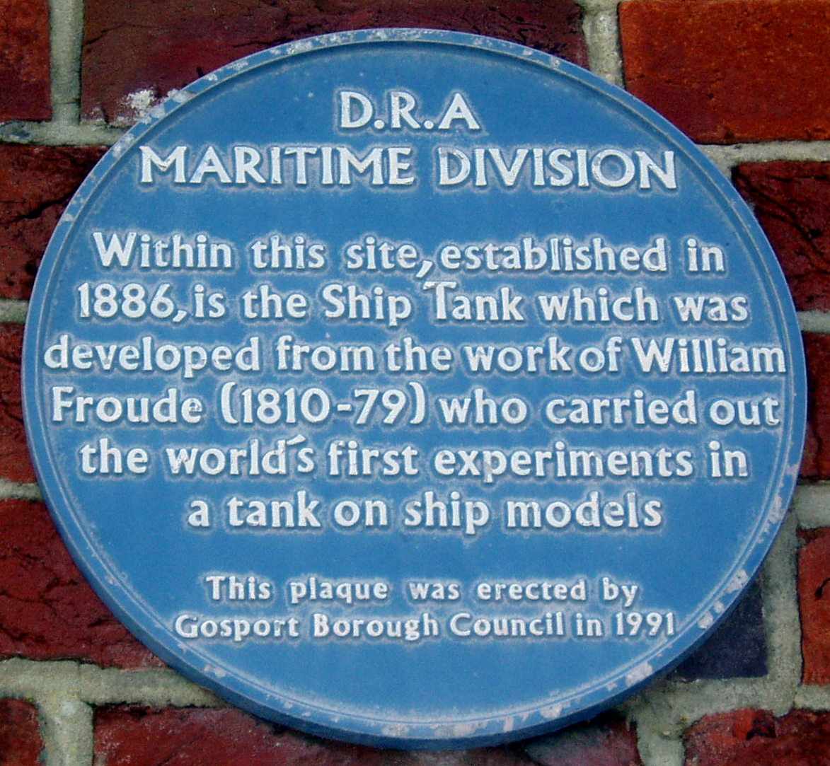 DRA Haslar commemorative plaque